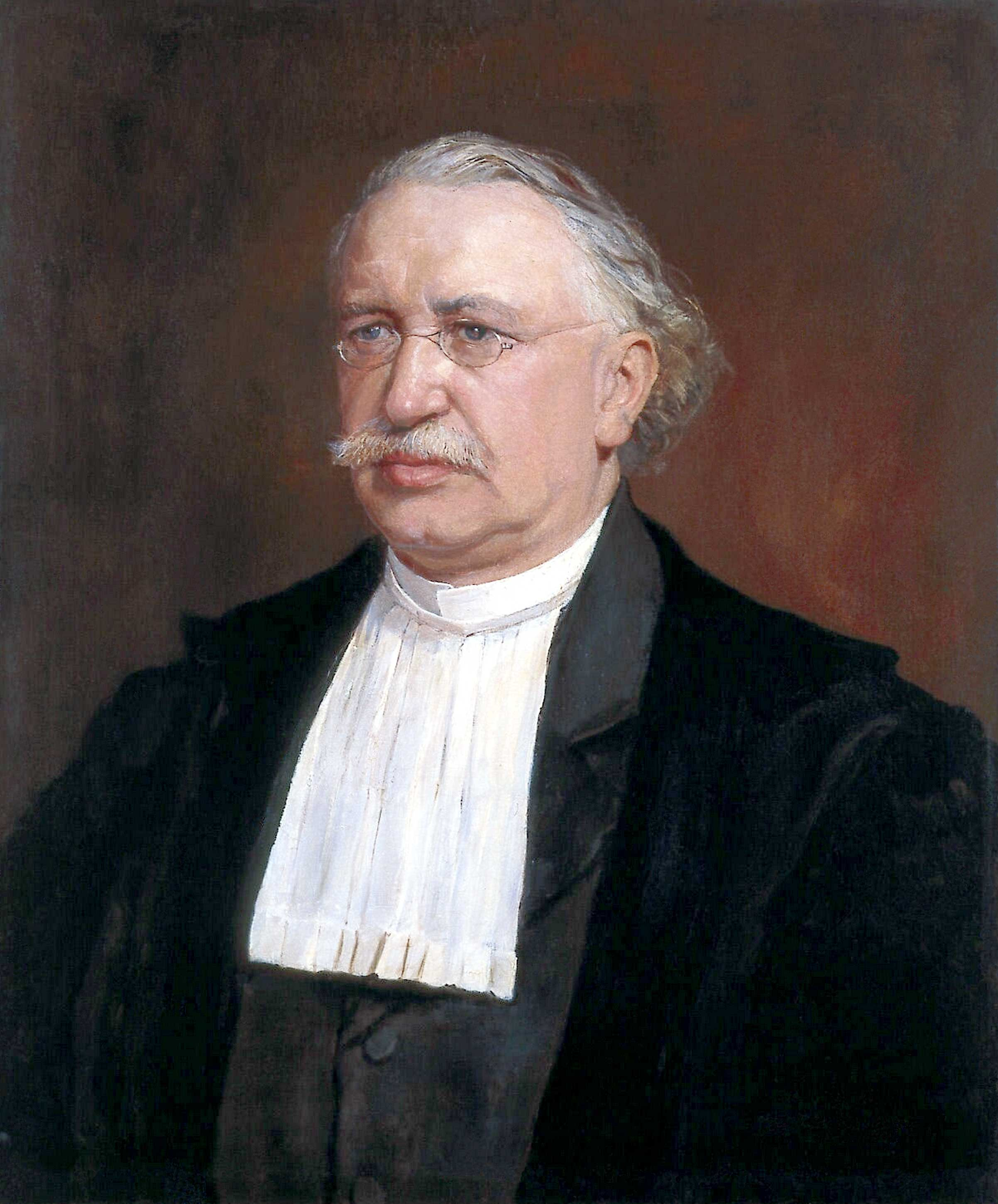 Theodor Wilhelm Engelmann (1843-1909), German physiologist, biologist and zoologist